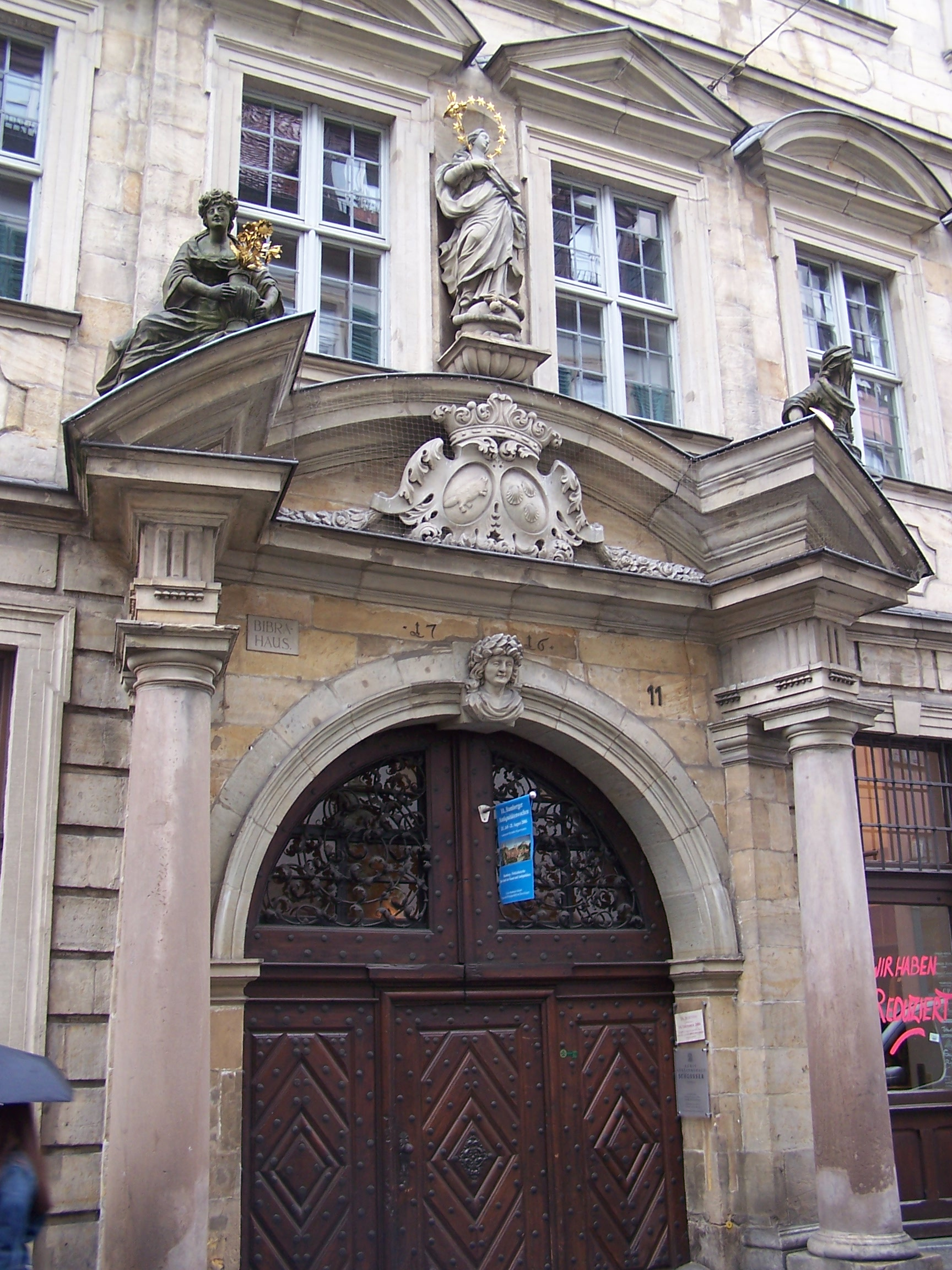 Bibra Haus in Bamberg by Johann Dietzenhofer and completed 1716